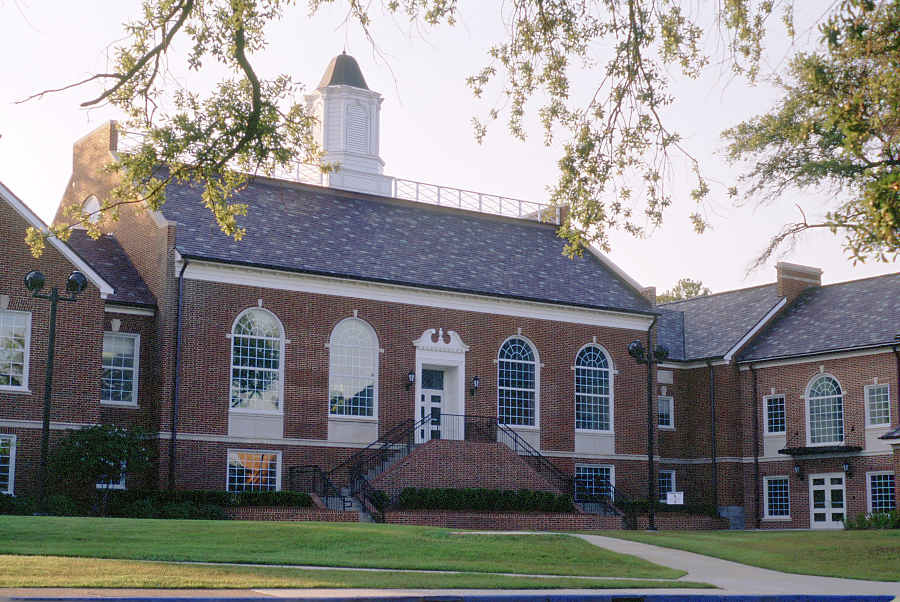 This is University Hall at Louisiana Tech University in Ruston, LA, USA. This building was originally the Prescott Memorial Library, until the library moved into its current home. This image was taken on September 21, 2012, using Kodak Elite Chrome 100 film and a Pentax K-1000 camera with a 50mm lens.